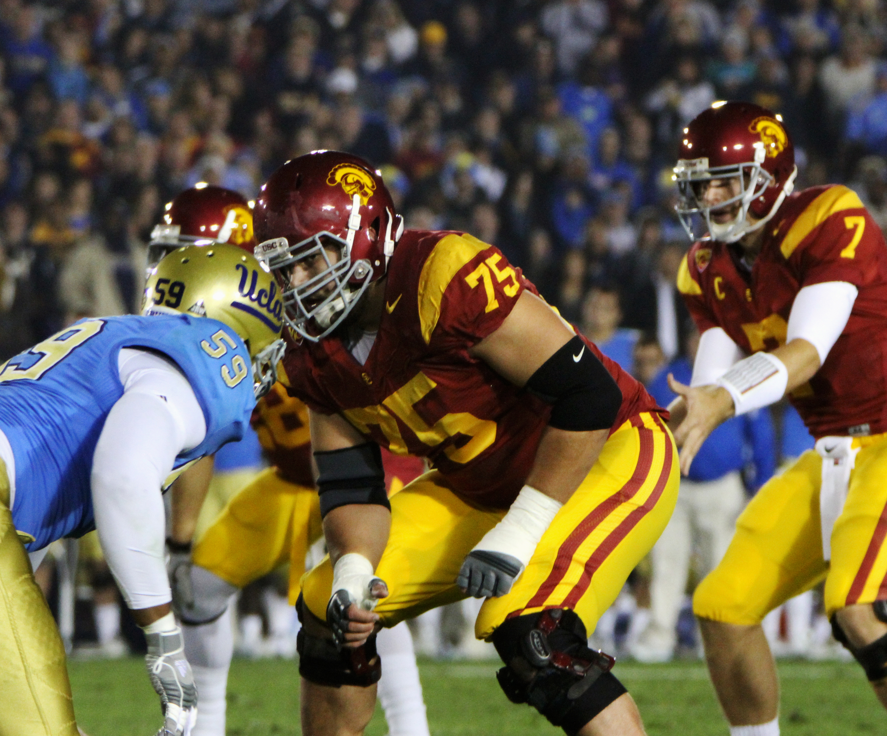 USC Trojans left tackle's Matt Kalil against UCLA's defense in a 2010 match